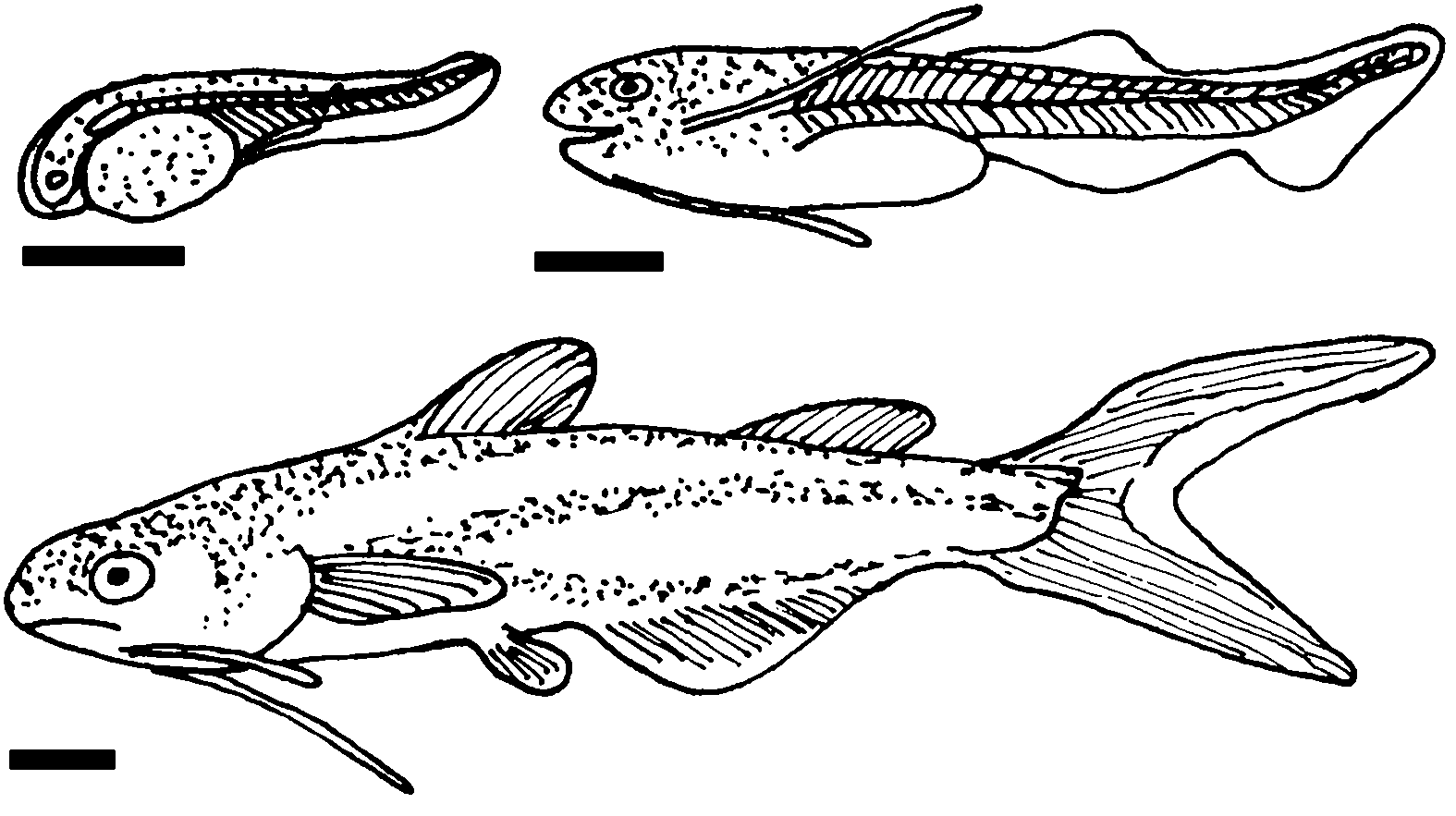 Development of Pangasianodon hypophthalmus. Freshly hatched larva, 4 days old larva and 14 days old fingerling. Black bars indicate 1 mm